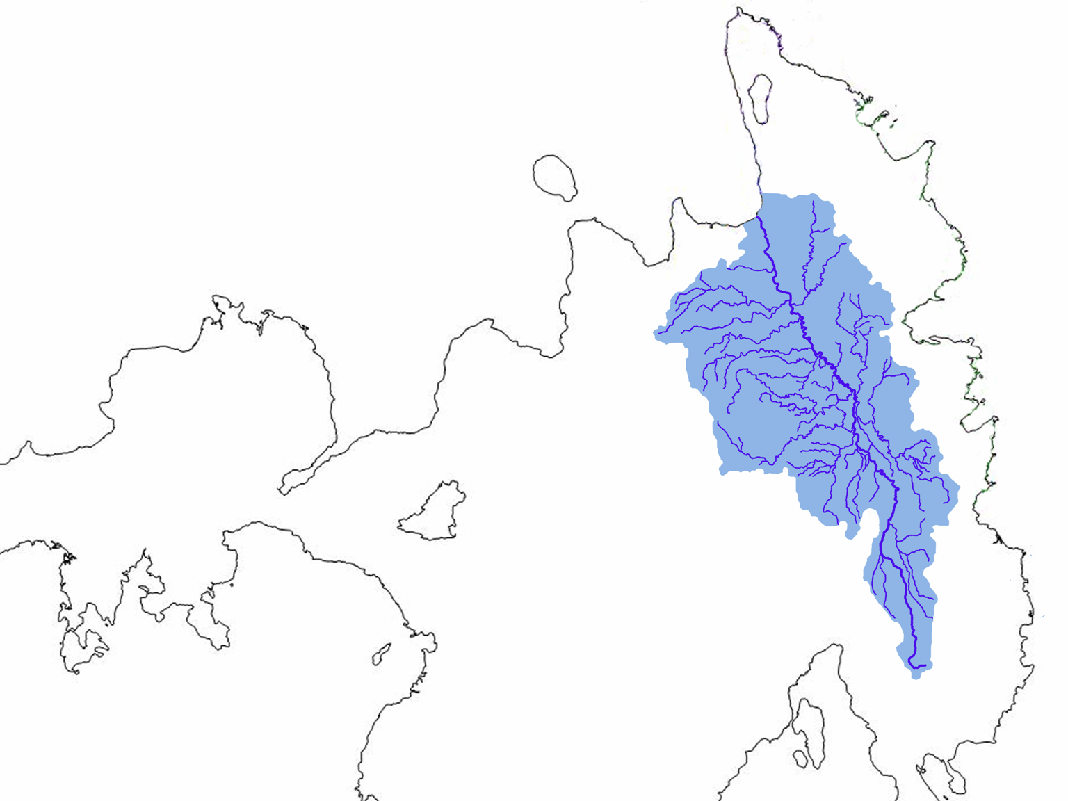 The drainage area of the Agusan River in Caraga region, Mindanao, Philippines.